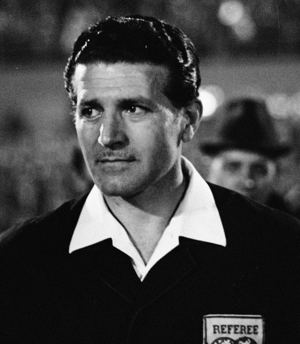 Italian football referee Concetto Lo Bello, at the 1970 European Cup Final match between Celtic and Feyenoord